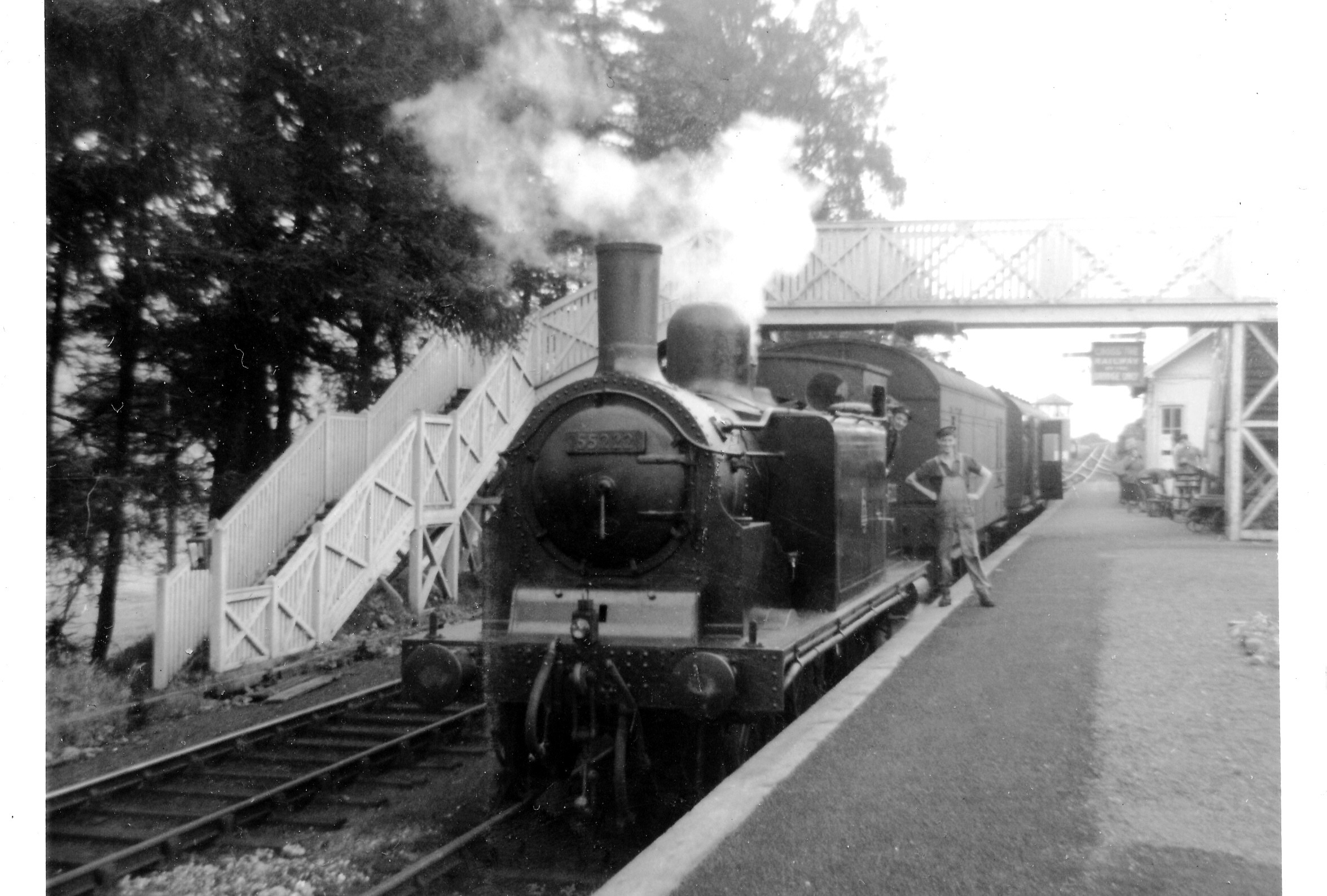 The train is the 'push-and-pull' set which operated the short branch from Killin Junction down to the town of Killin on the shores of Loch Tay